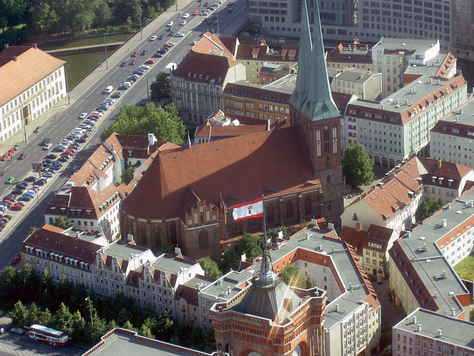 The "Nikolaikirche" ("Nikolai church") in Berlin seen from the TV-Tower